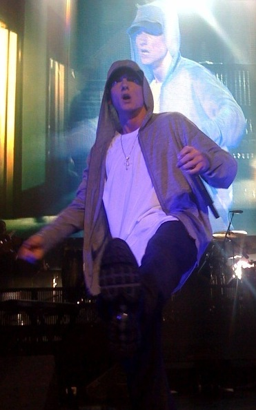 Eminem in Hong Kong tour